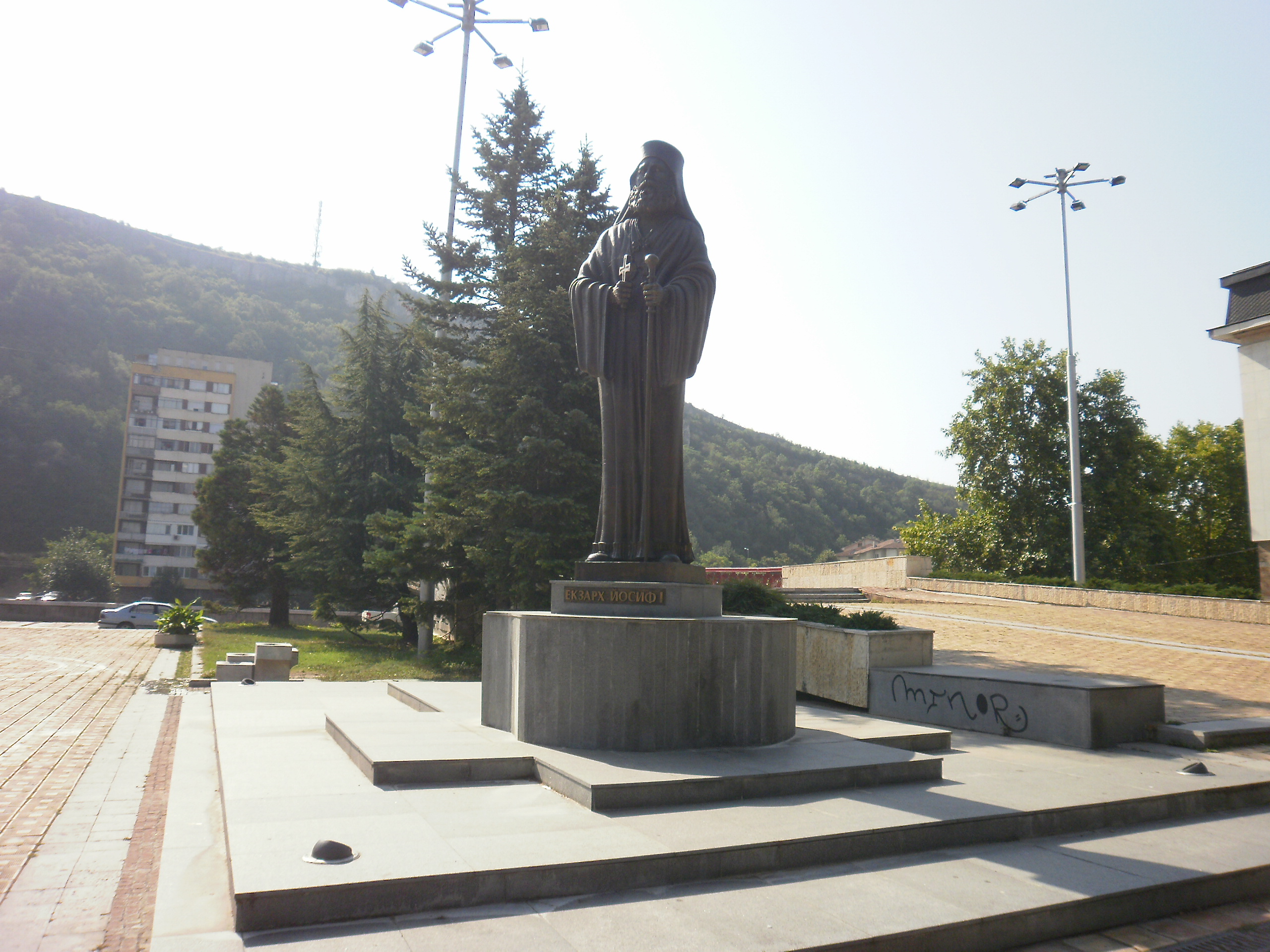 Monument of Exarch Joseph I in Lovech, Bulgaria.